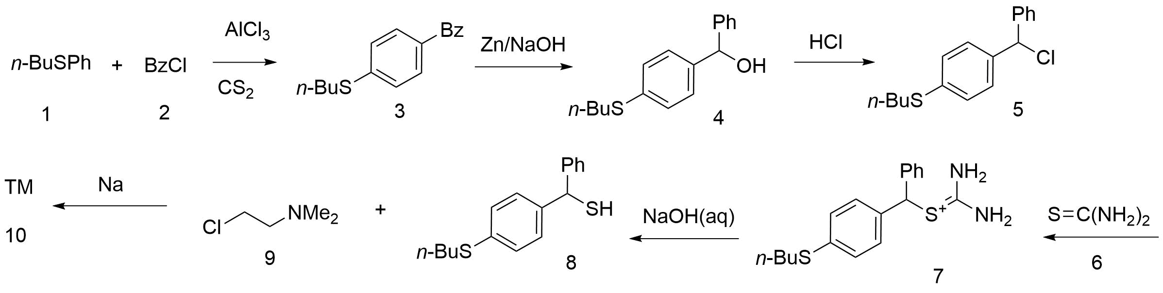 US2830088